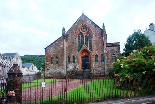 Tarbert Free Church. Keeping an eye on the devil (the Tarbert Hotel) and the deep blue sea (the harbour at least) the church sits quietly in a side street.